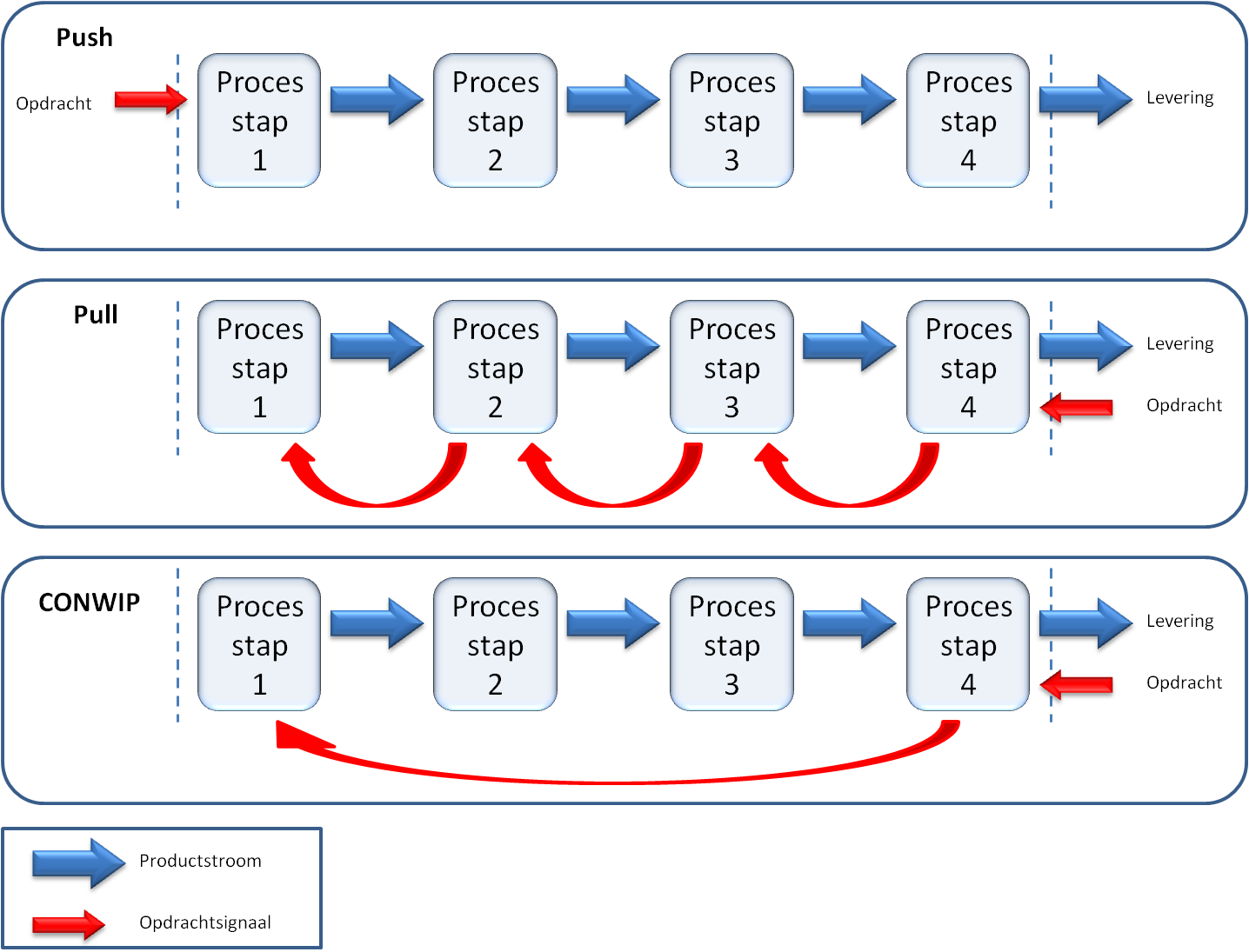 Illustration of CONWIP compared to pull and push